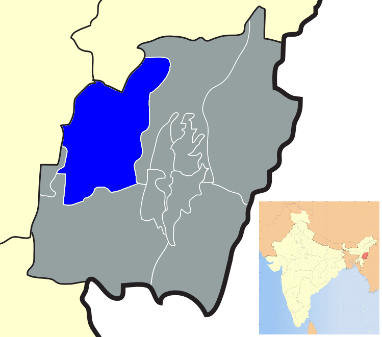 This is a retouched picture, which means that it has been digitally altered from its original version. The original can be viewed here: India Manipur locator map.svg.